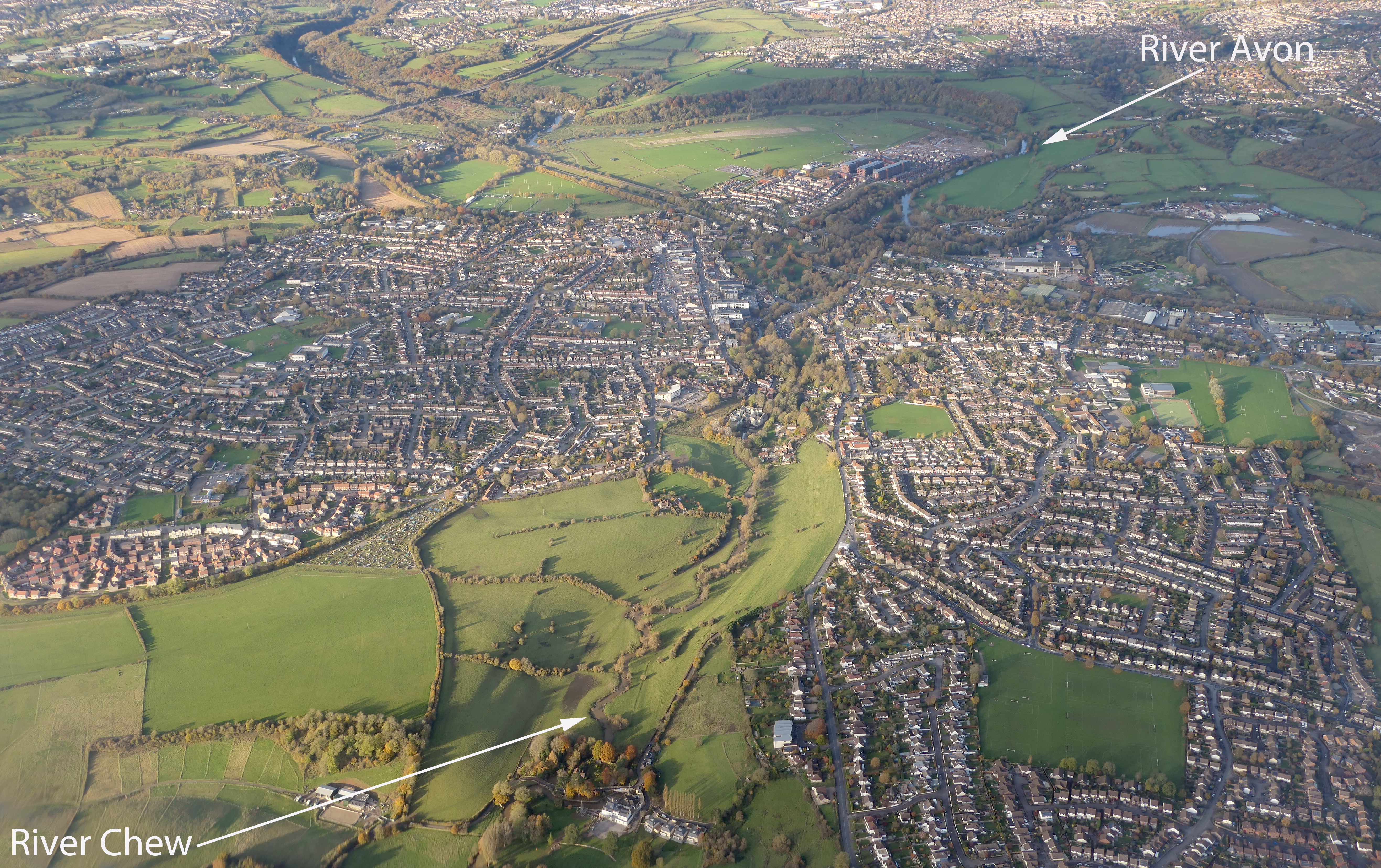 An aerial view of Keynsham near Bristol in the UK. The photograph also shows parts of the rivers Chew and Avon.